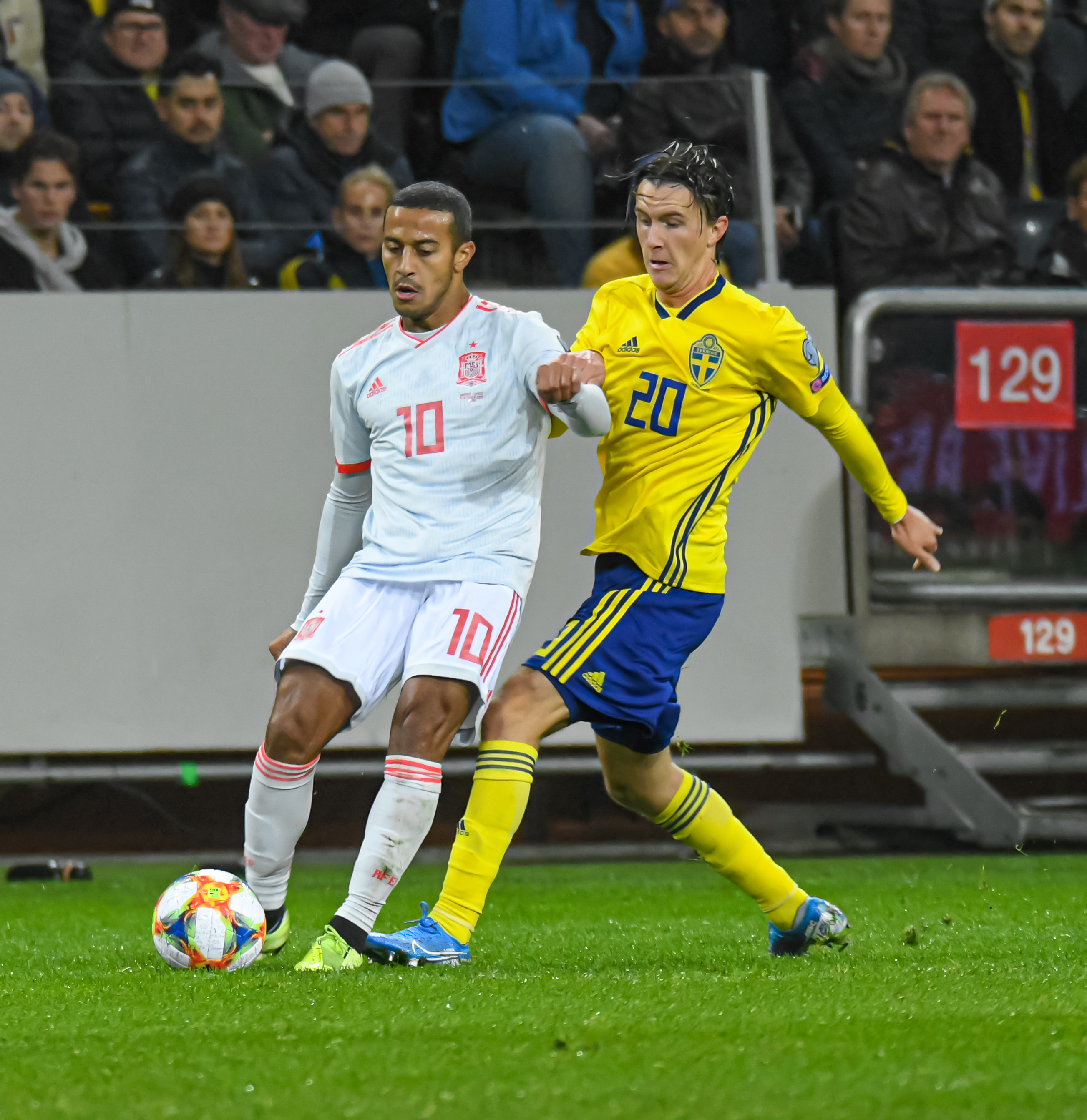 UEFA_EURO_qualifiers_Sweden_vs_Spain_20191015